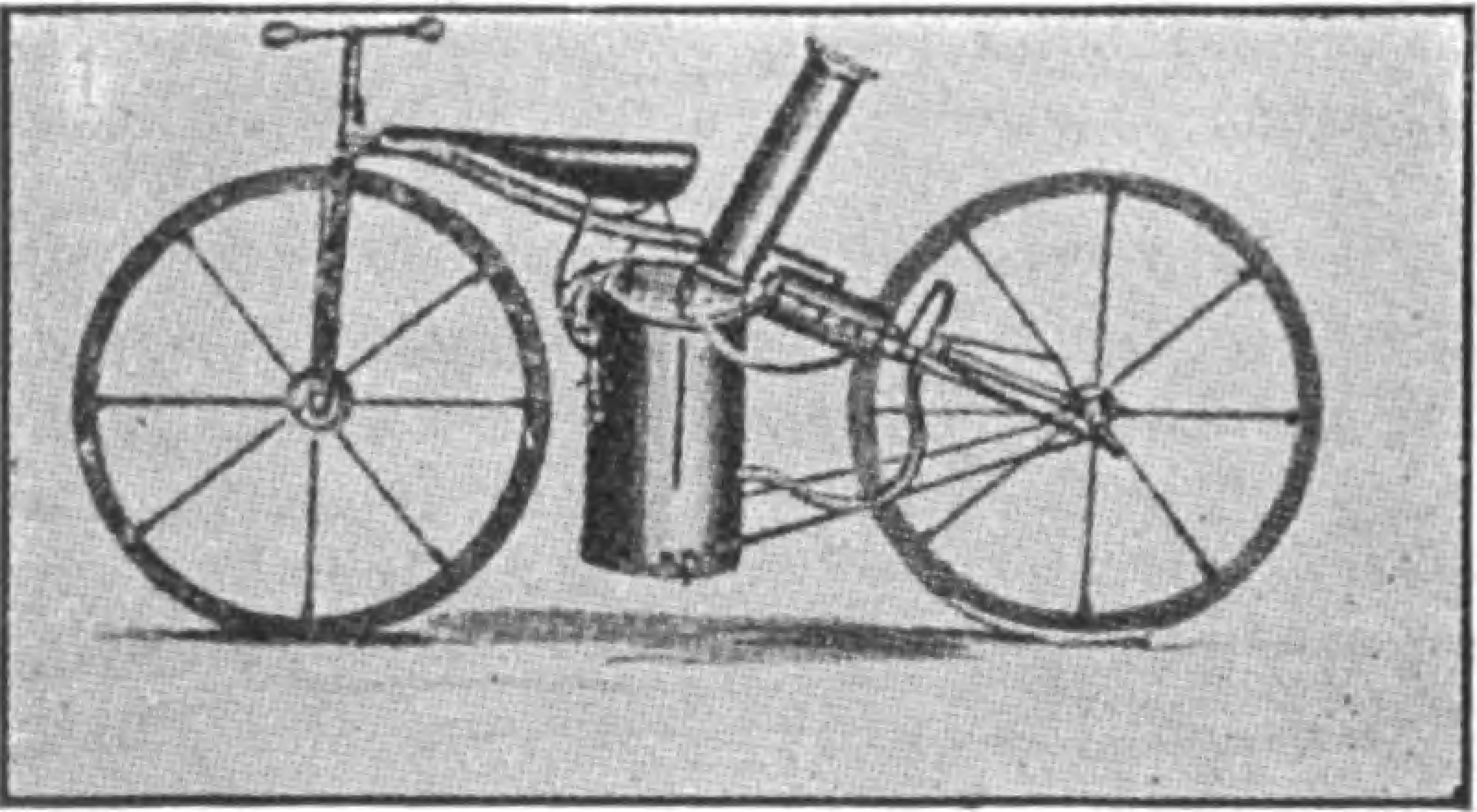 Drawing of 1868 Roper steam velocipede. Sometimes attributed to W.W. Austin. Page 52. Illustration by Hendee Manufacturing Co.